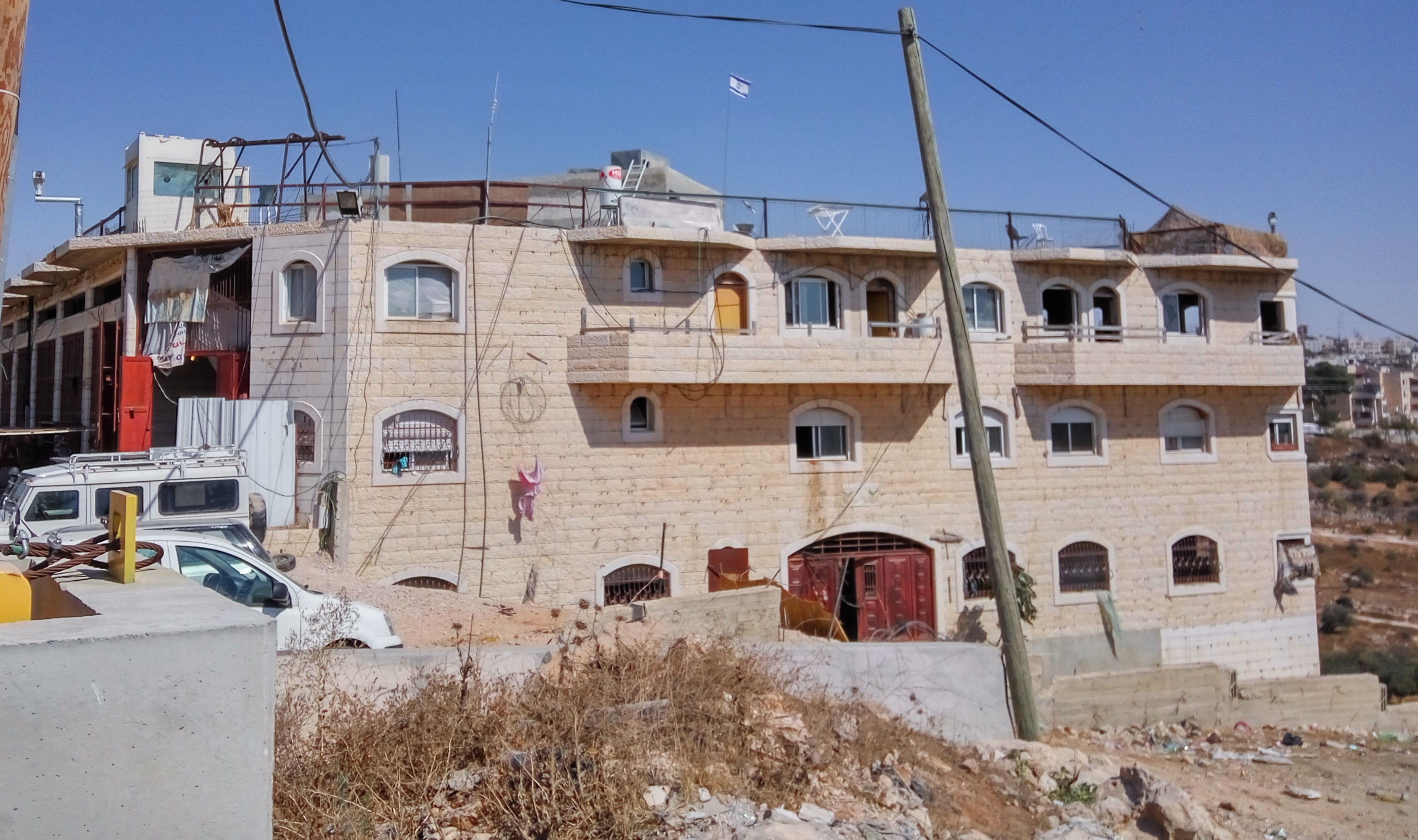 Children near Rajabi House, Hebron